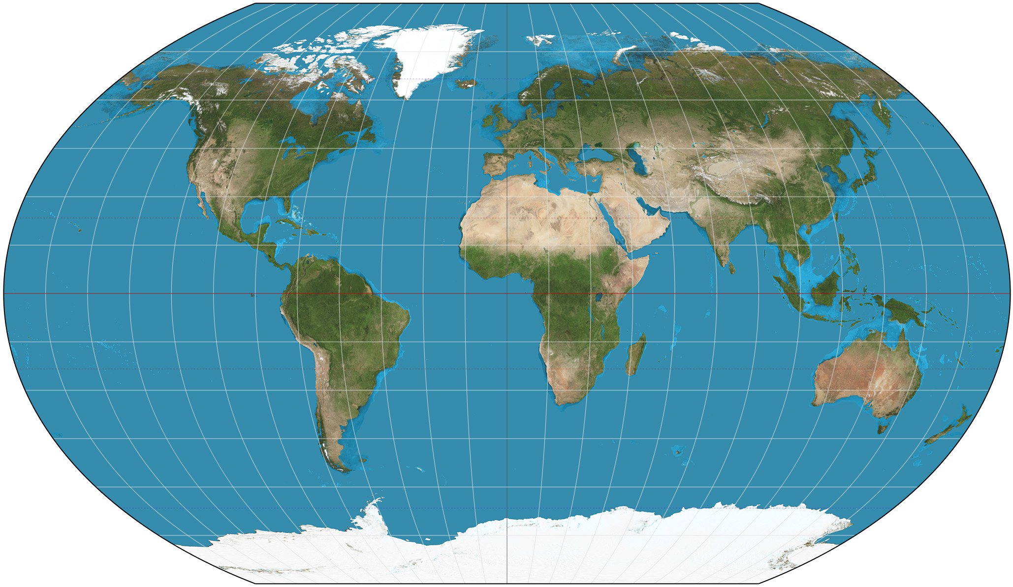 The world on Kavraiskiy VII projection. 15° graticule. Imagery is a derivative of NASA’s Blue Marble summer month composite with oceans lightened to enhance legibility and contrast. Image created with the Geocart map projection software.